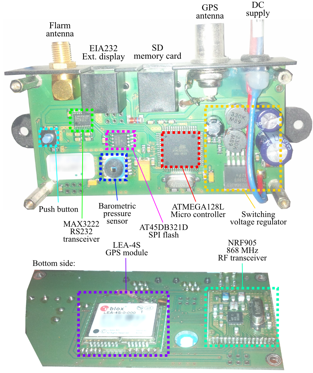 Interior and hardware components of a LX FLARM Red Box transceiver for external traffic displays